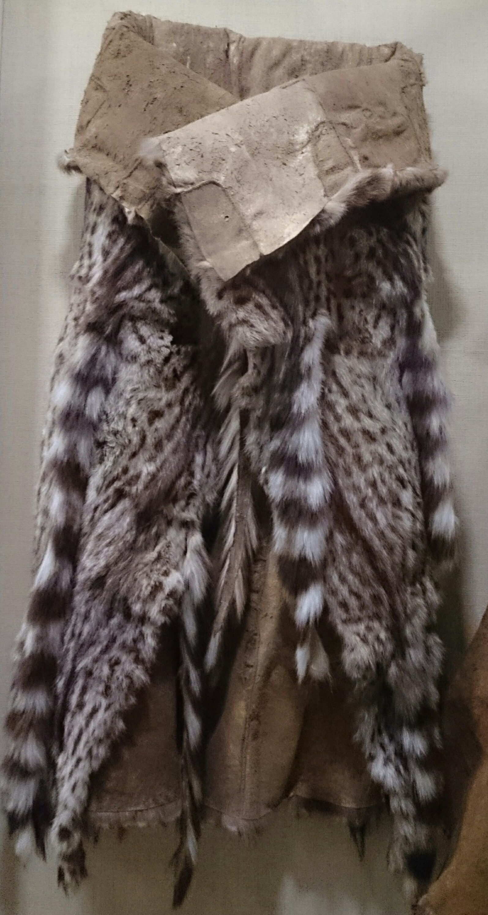 Made of the skins of wild cats